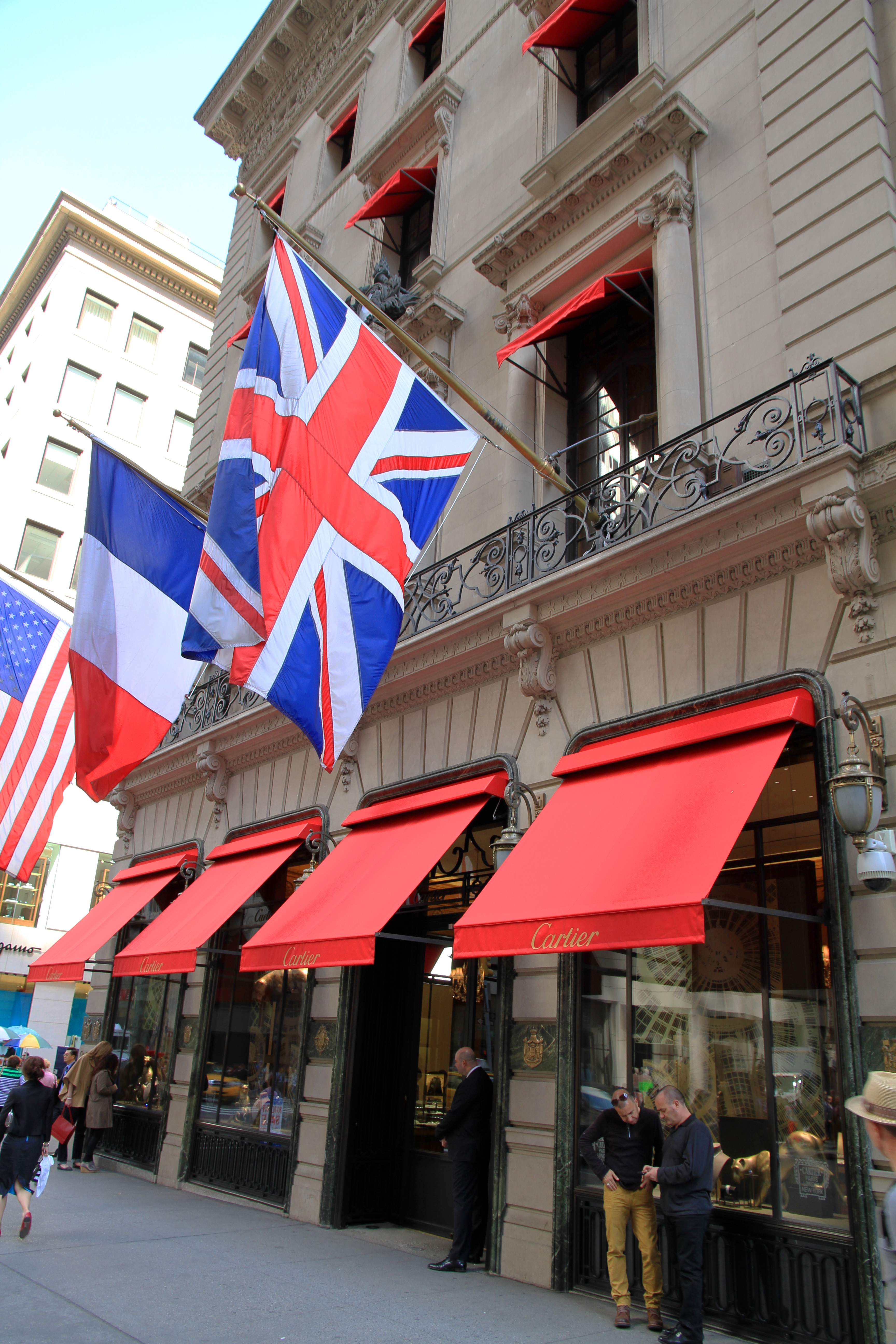 Fifth Avenue, New York, 2013